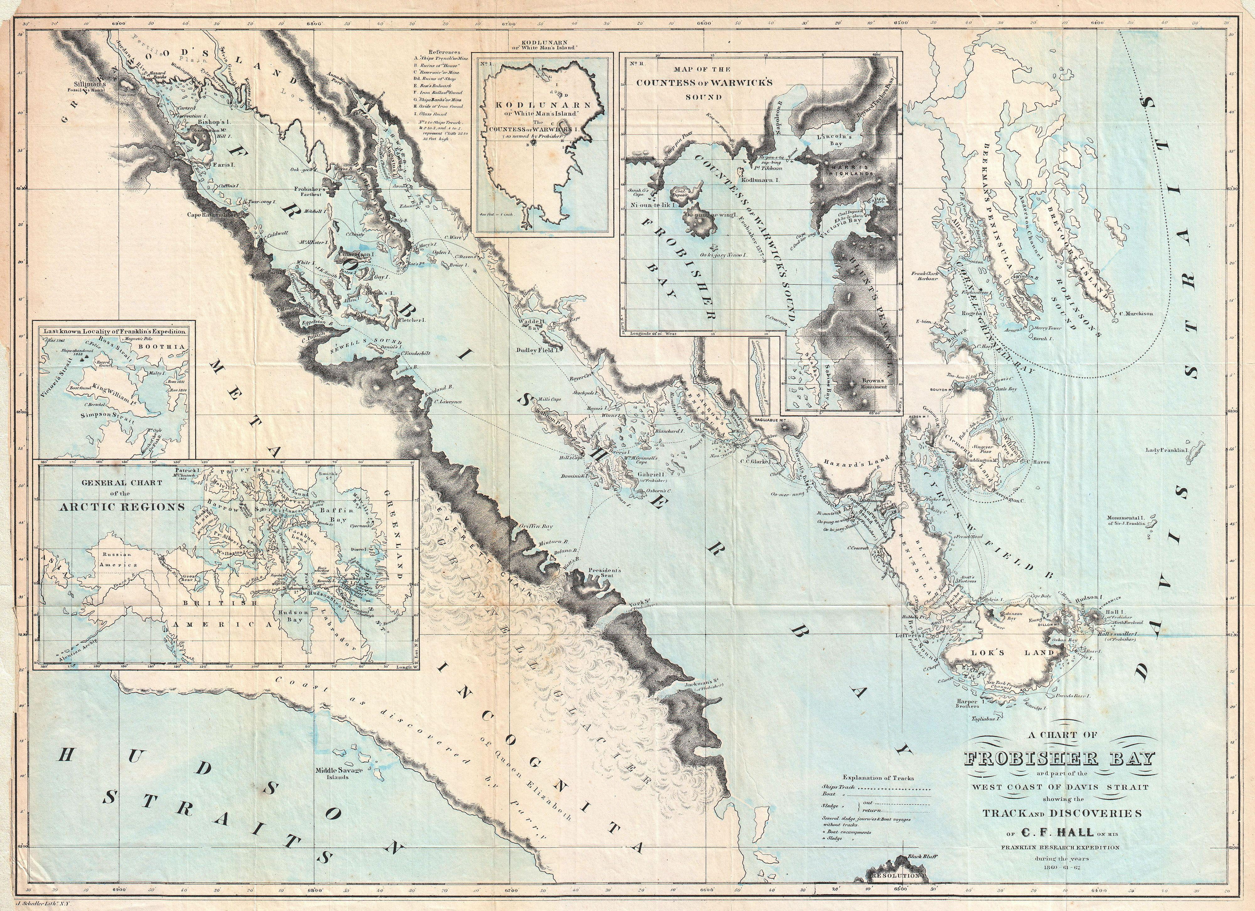 This is a rare and fascinating 1864 map of Frobisher Bay, Baffin Island and the Davis Straits, Canada prepared to illustrate the explorations and discoveries of Charles Francis Hall. Hall is a fascinating figure in Arctic Exploration. In 1860 Hall, at the time a Newspaper publisher, became obsessed with the idea of rescuing the missing Arctic expedition of English nobleman Sir John Franklin. Despite a lack of substantial funding or experience in the Arctic, Hall set out for Greenland with the plan to use local guides and techniques to aid in his explorations. The full story of Hall’s fascinating adventures cannot be contained here, nonetheless, after several years in the Arctic, he did in fact discover the sad fate of Franklin’s expedition – starvation and death. This however was not his most notable achievement. Rather, it is his correctly identifying Frobisher Strait as a Bay on Baffin Island. The English navigator Martin Frobisher first explored this area in 1576 in the search of a Northwest Passage. He described the discovery of a large body of open water to the west of Baffin Island. Desirous of a Northwest Passage, Frobisher assumed that the Bay was in fact a strait separating Baffin Island from another unknown island. It was not until Hall explored the area in 1860 that it became clear that Baffin Island was much larger than presumed and that the supposed “strait” was little more than a large bay. This is consequently one of the first published maps to show this Arctic region with relative accuracy. Published to supplement C. F. Hall's account of the “Franklin Research Expedition” in 1865.